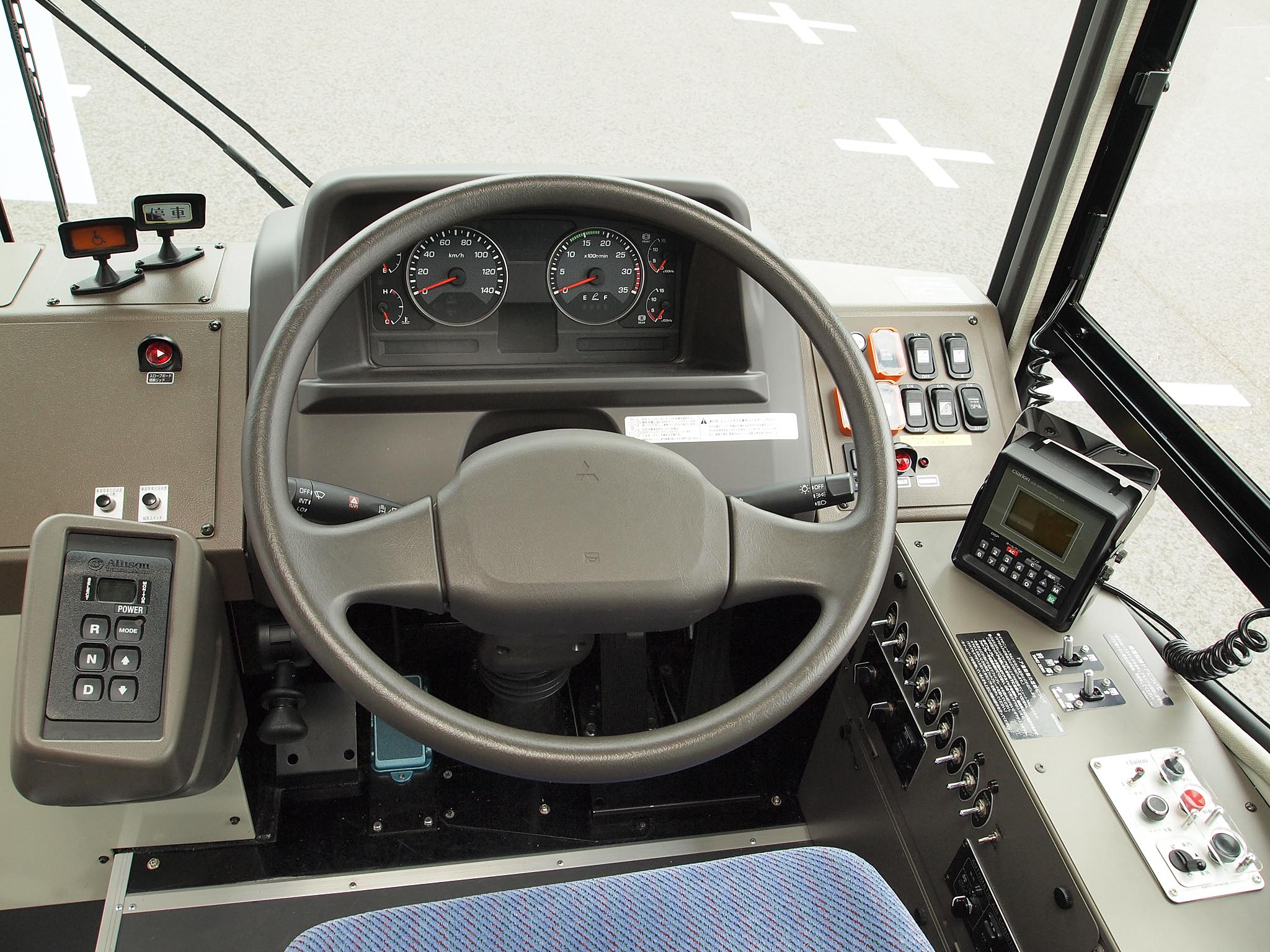 Cockpit of Fuso Aero Star MP35F and MP37F series.